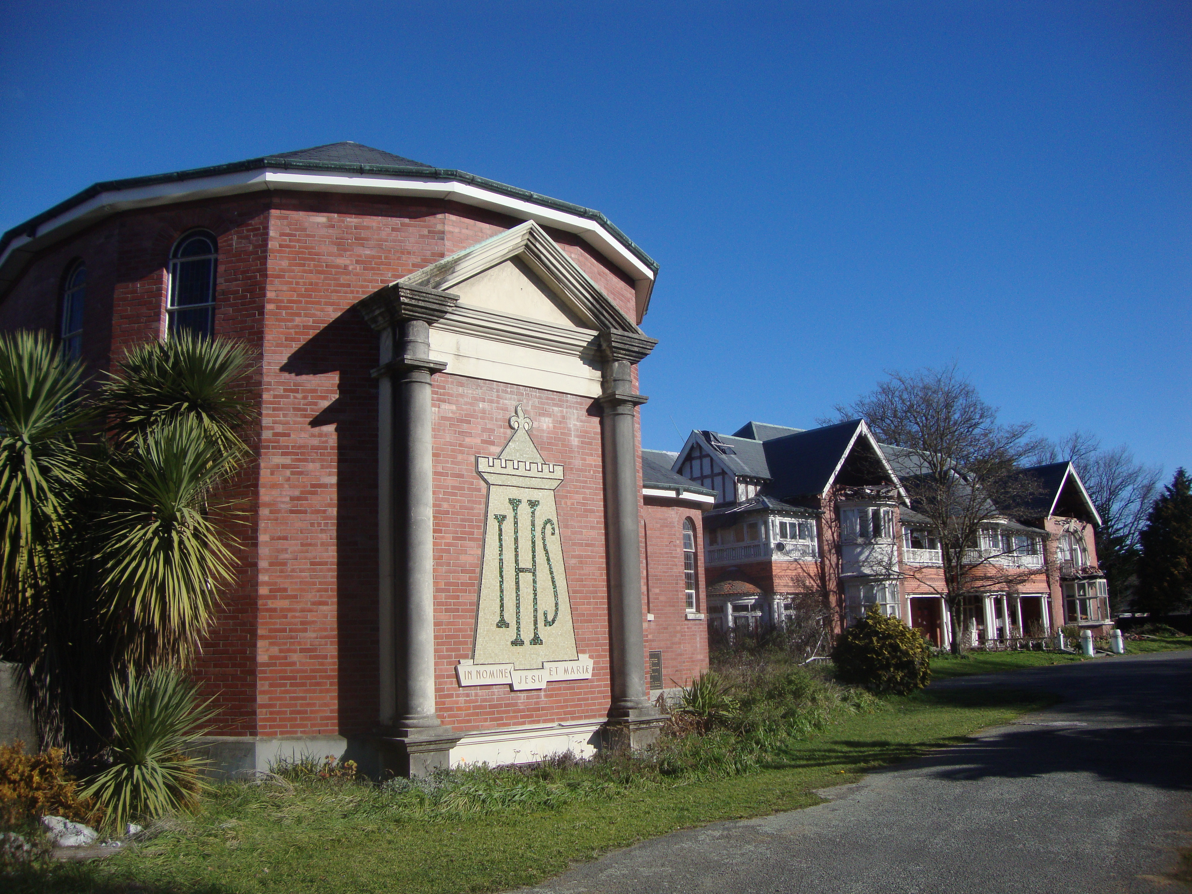 Antonio House in August 2011.